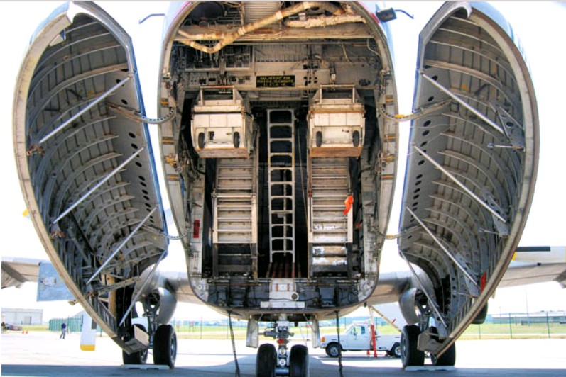 View (looking aft) of the cargo doors of a U.S. Air Force Douglas C-124A Globemaster II (s/n 49-0258, c/n 43187) at the USAF Air Mobility Command Museum at Dover Air Force Base, Delaware (USA).